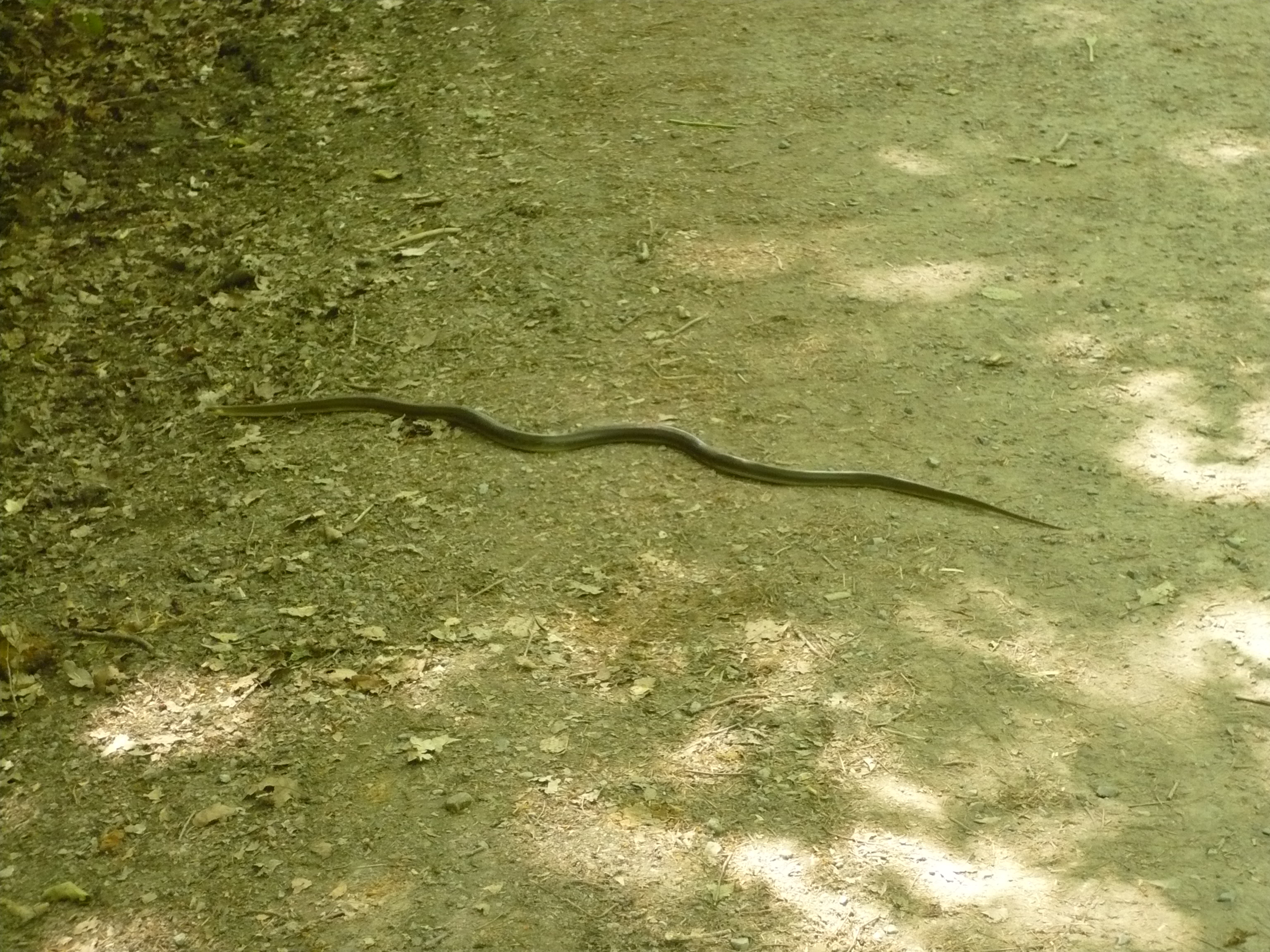 Rat snake in İstanbul